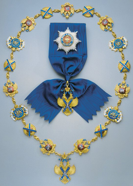 Order Of Saint Andrew The Apostle. Reinstated on 1 July 1998 after its abolition in 1917, the Order Of Saint Andrew is the highest military and civilian order of Russia. It is awarded for "exceptional services leading to prosperity and glory of Russia". The order has a medal worn around the neck on a gilded chain, and a star worn on a blue sash across the shoulder.